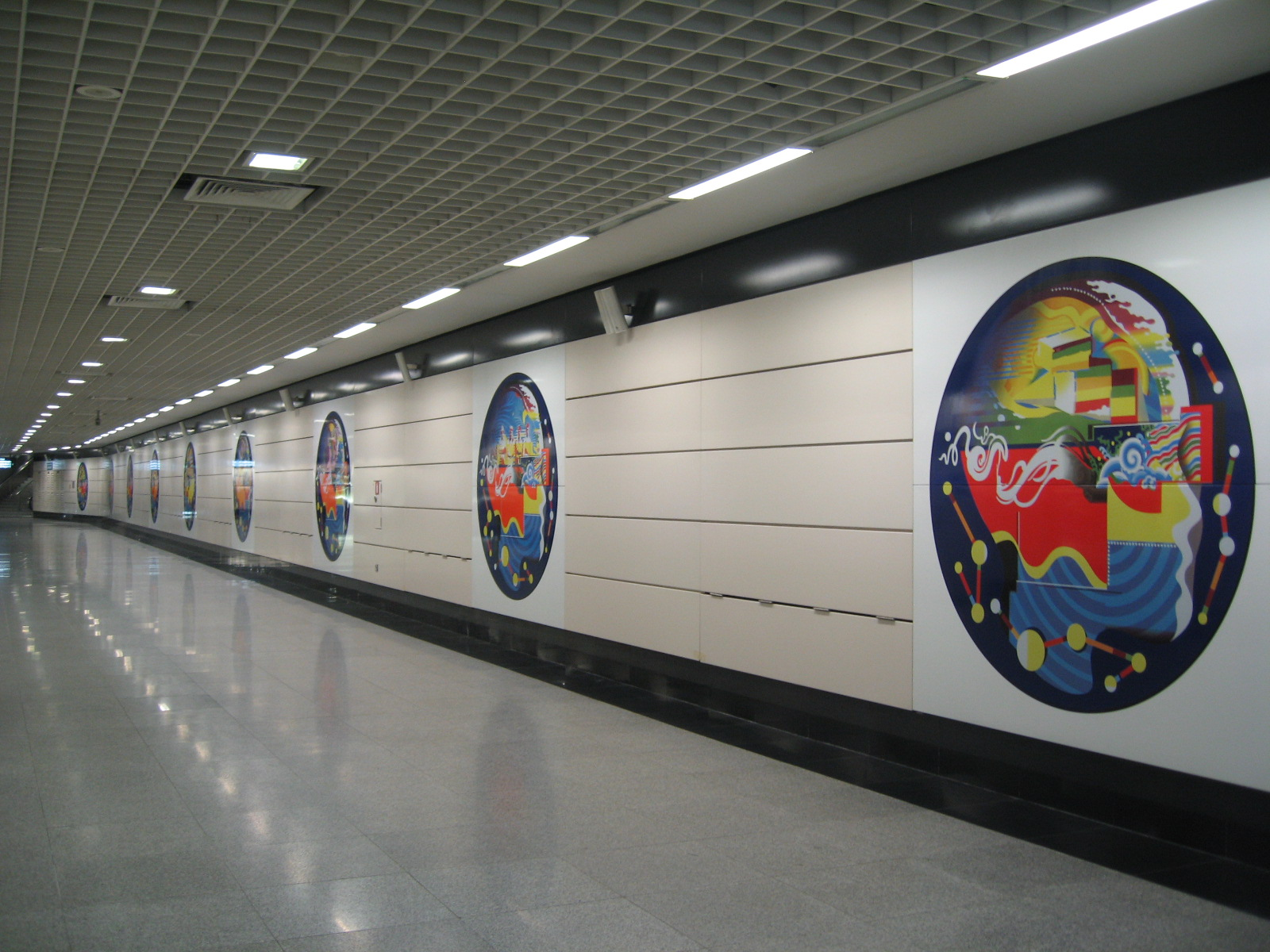 Artwork at Outram Park MRT Station.